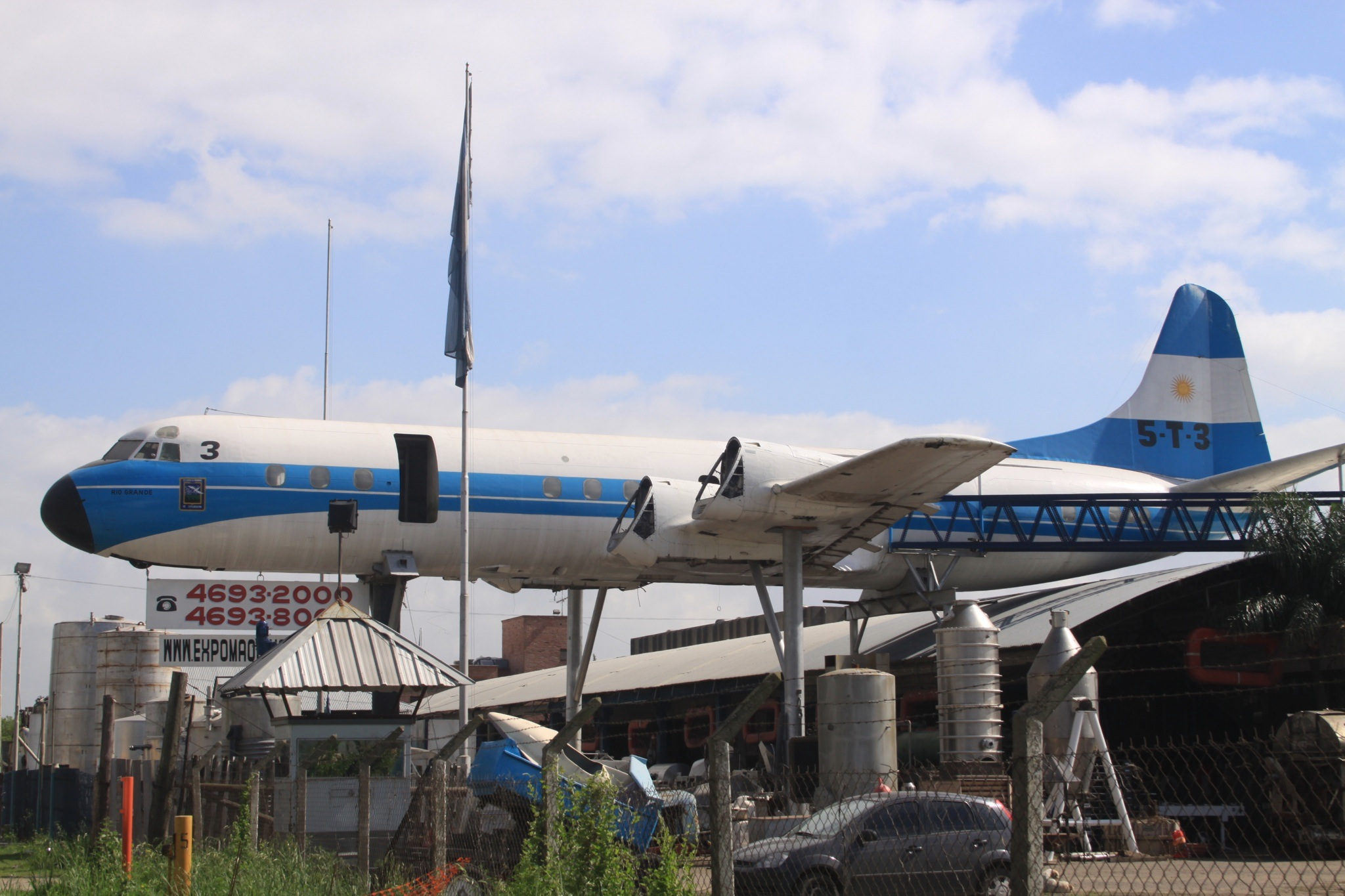 At Centro Universidad De Aviacion in Matanza